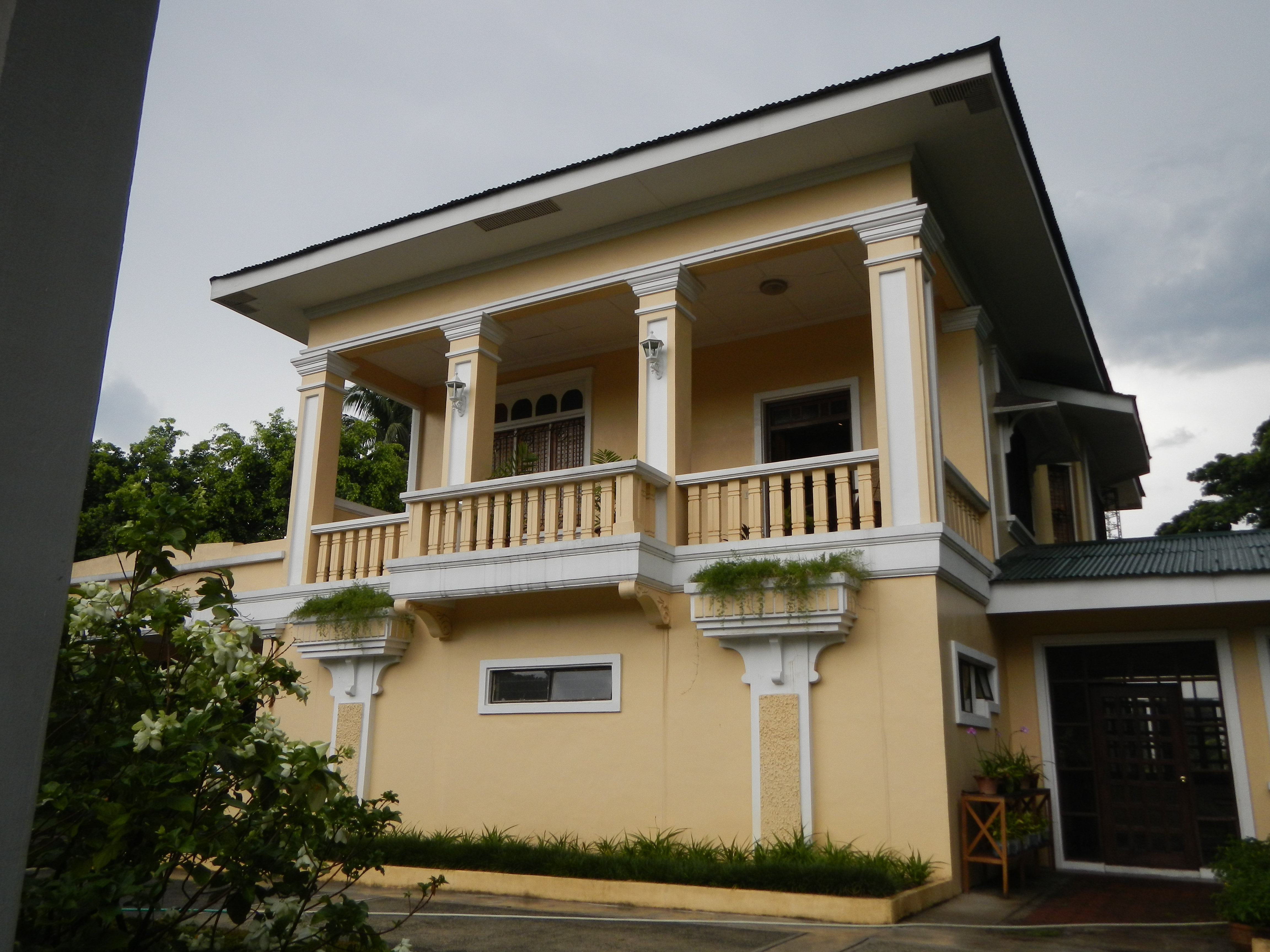 The Quezon Heritage House beside Circle Food Complex 500 sq.m. Quezon-Avanceña house originally located at 45 Gilmore Street, New Manila, Quezon City - in Quezon Memorial Circle, Quezon City (bounded by the Elliptical Road, a large 2-km Roundabout and Landmark in Quezon City, a tall Mausoleum containing the remains of Manuel L. Quezon, and his wife, First Lady Aurora Quezon, Quezon Memorial Shrine, Dancing water fountain Quezon Memorial Marker, Quezon Monument Museum; Quezon Memorial Circle as a people's park 15.65 hectares of green space in the park. 14° 39′ 03.98″ N, 121° 02′ 57.4″ E Metro Manila).